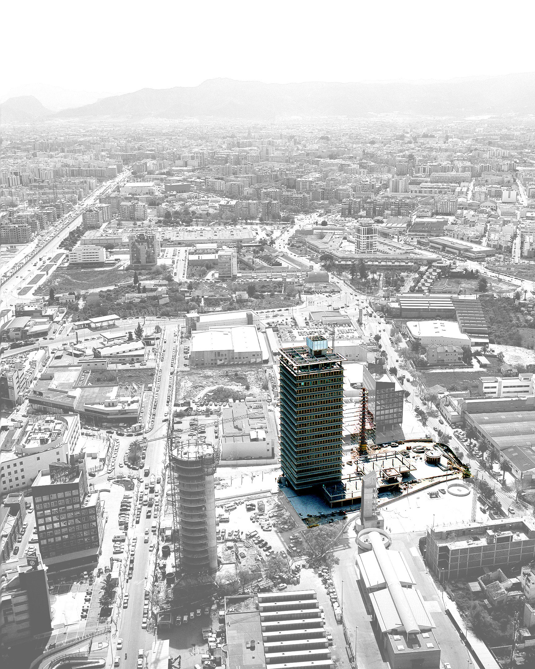 Godoy Tower - Office building